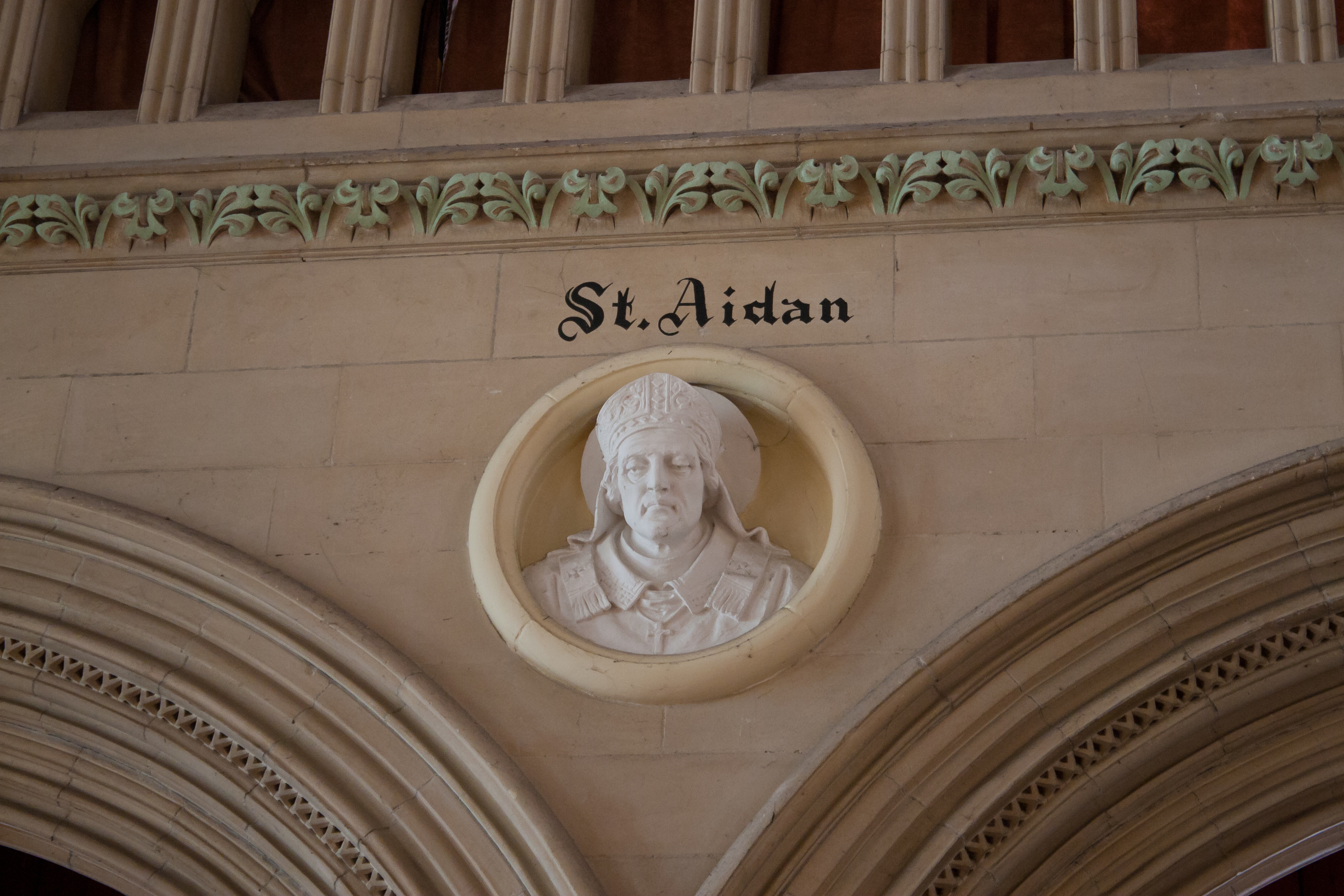 Relief of St. Aidan at the west end of the nave above one of the piers separating the nave from the entrance hall.